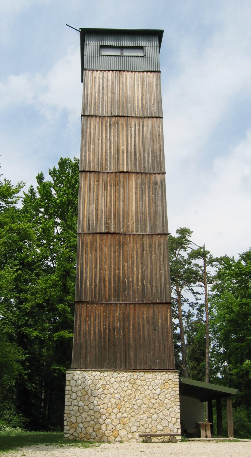 View tower on the Augstberg, a hill of the Swabian Jura, Germany